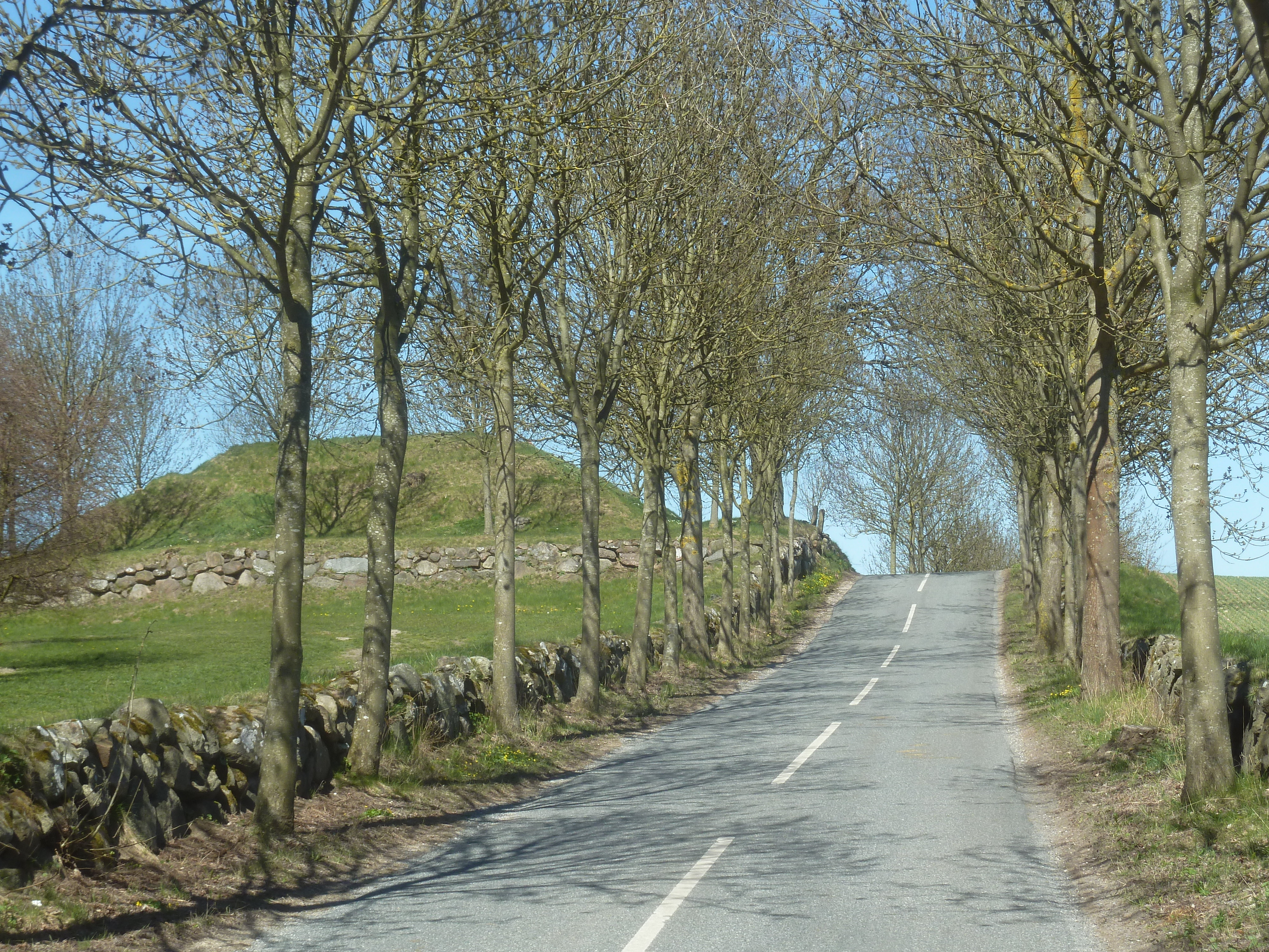 Edelgave Allé and Gyngehøj, Egedal Municipality, Denmark